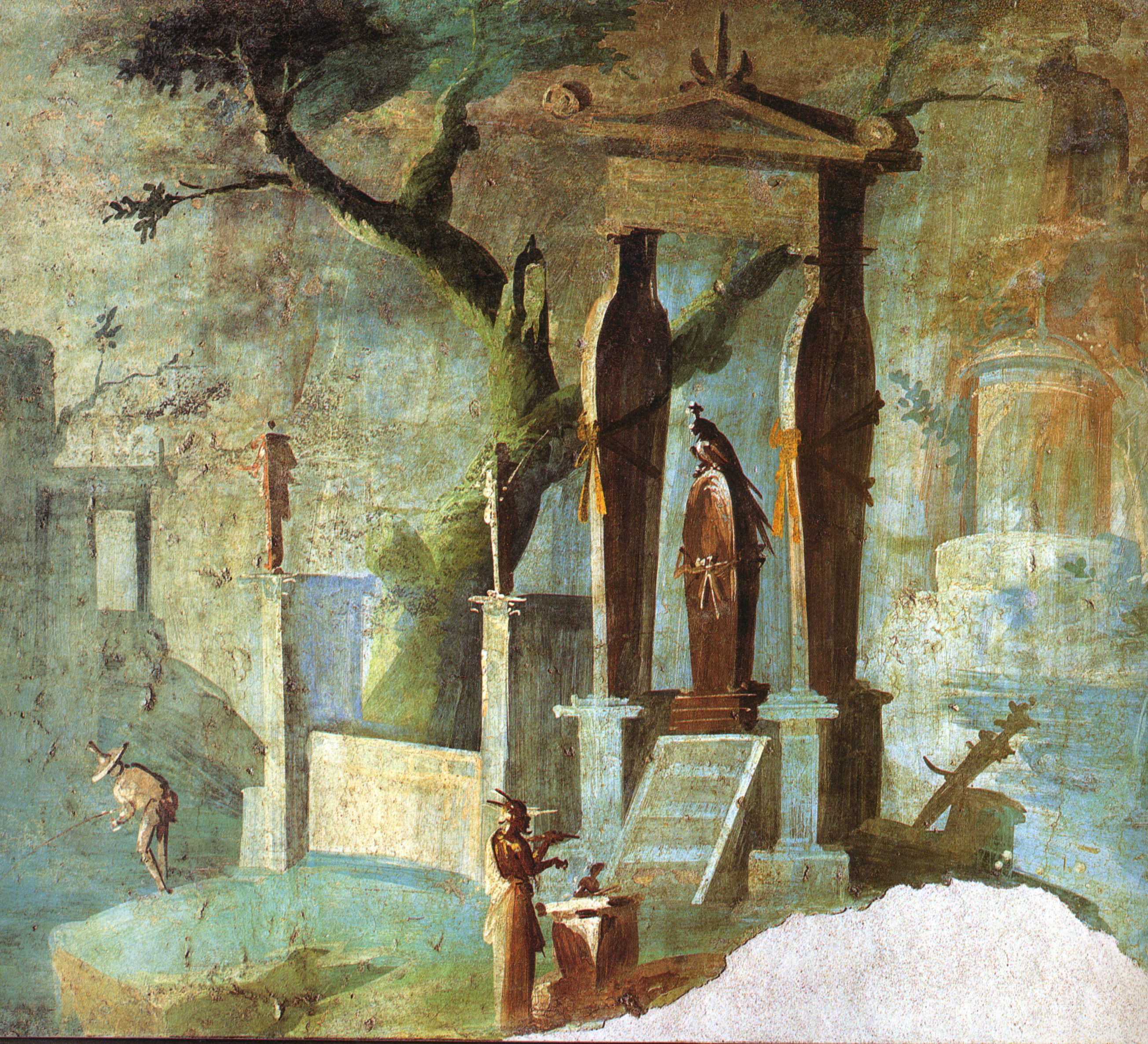 Landscape with fisher and a priest offering in front of the sarcophagus of Osiris. Roman fresco from the temple of Isis in Pompeii. Museo Archeologico Nazionale (Naples) (inv. nr. 8570).